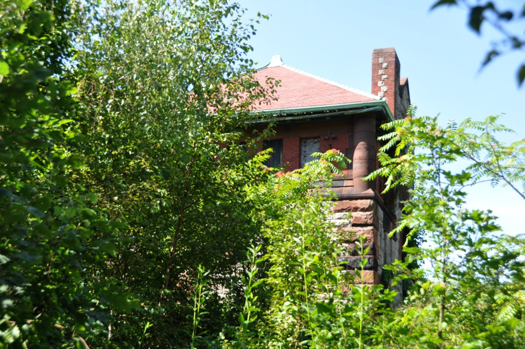 A photograph of the gatehouse at the Fisher Hill Reservoir and Gatehouse in Brookline, Massachusetts.